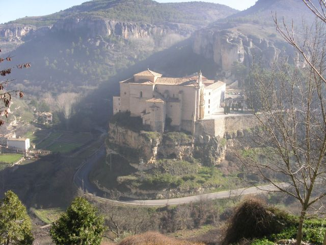 Convento de San Pablo (Cuenca, Spain)